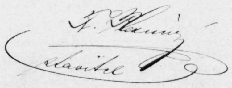 Signature of Austro-Hungarian architect František Plesnivý